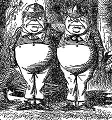 Tenniel illustration of Tweedledum (left) and Tweedledee (right), cropped to show only the two characters, excluding Alice.